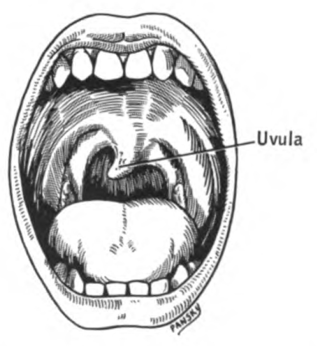 Anatomical illustration of the human nervous system from the 1960 book A functional approach to neuroanatomy